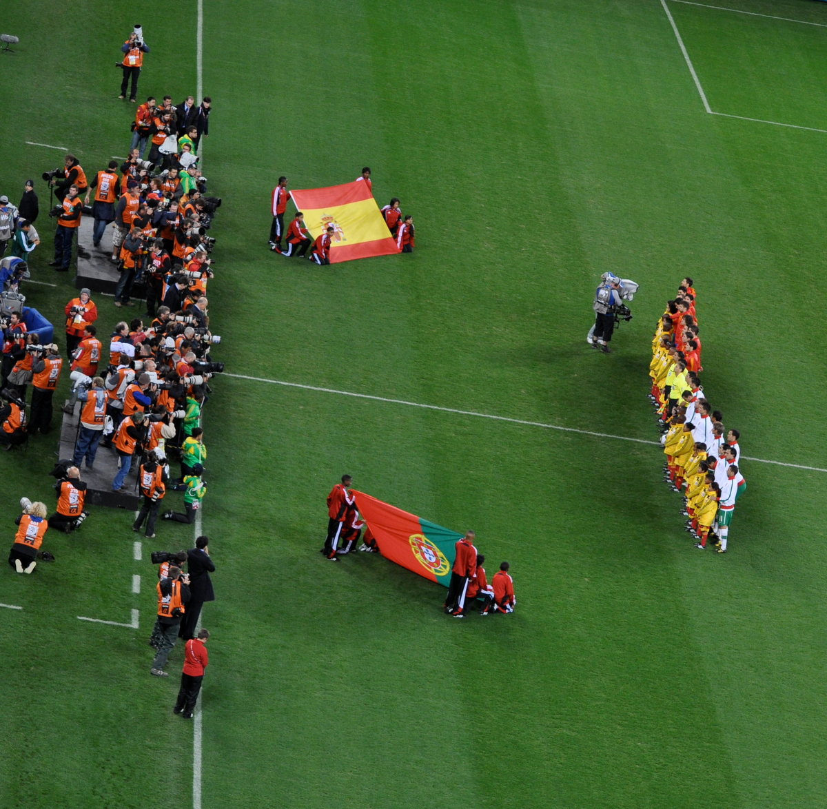 There looks like at least 2 photographers per player!